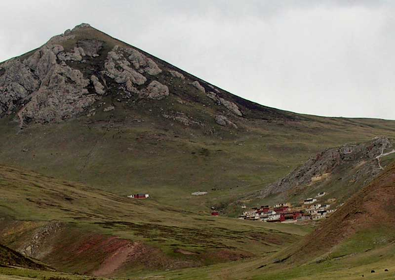 The site of Domka Nedo monastery in Nangchen (Nangqên), now within the limits of Yushu county, Yushu TAP (Qinghai)